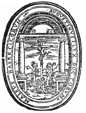 Seal of the Order of Saint Augustine at the Constitutions of the order printed at Rome, 1581